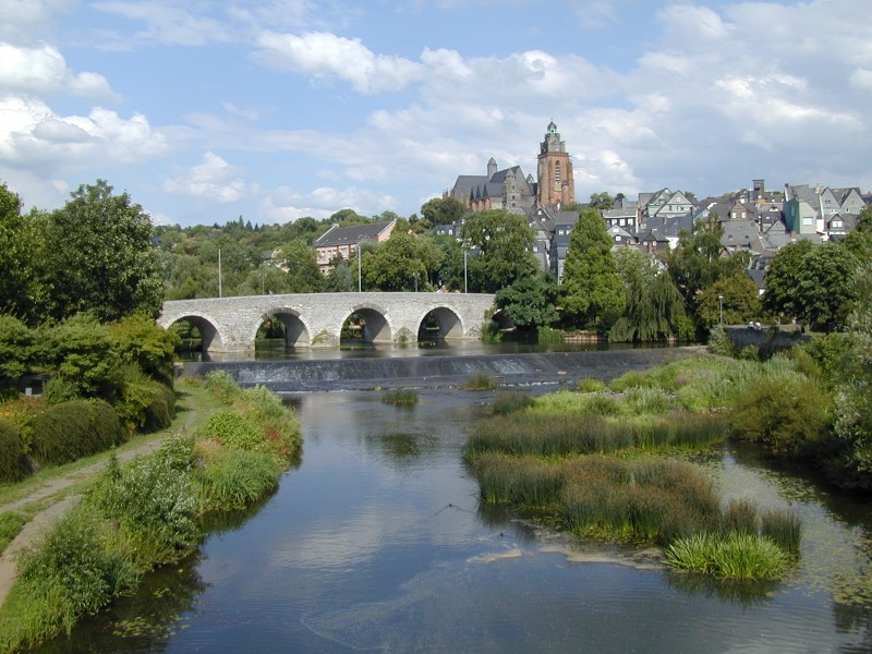 Wetzlar, Lahnbrücke